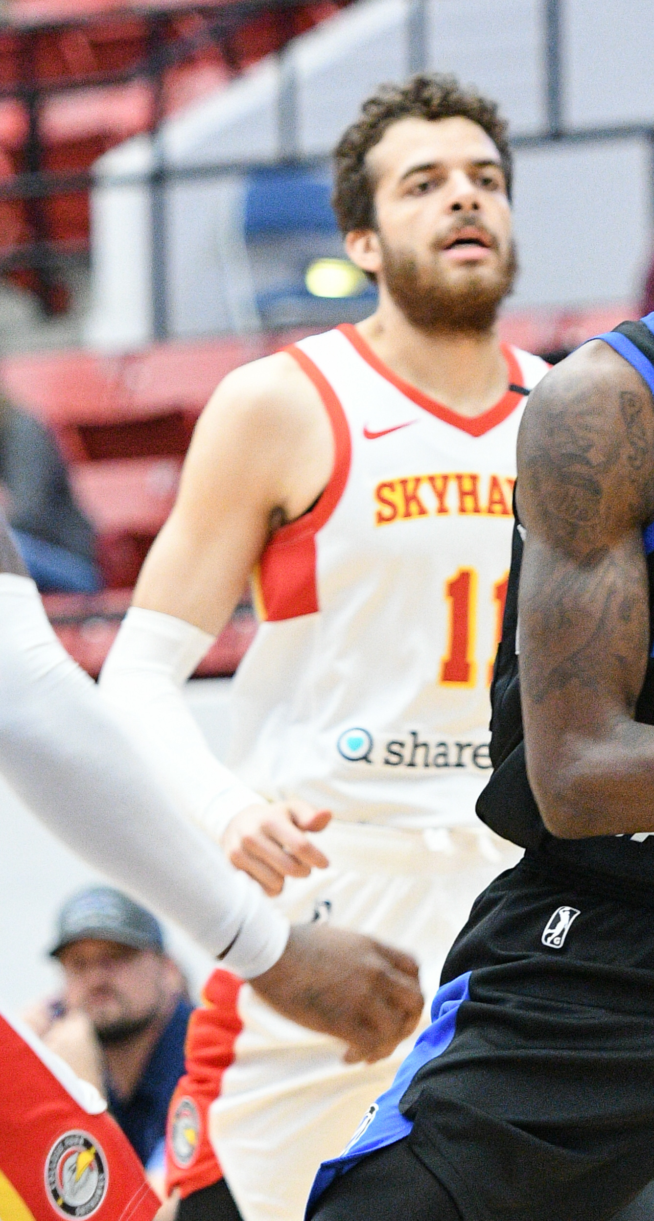 BJ Johnson. Lakeland Magic vs College Park Skyhawks. RP Funding Center. Lakeland, Fla. Feb. 9, 2020. (Photo by Tom Hagerty.)